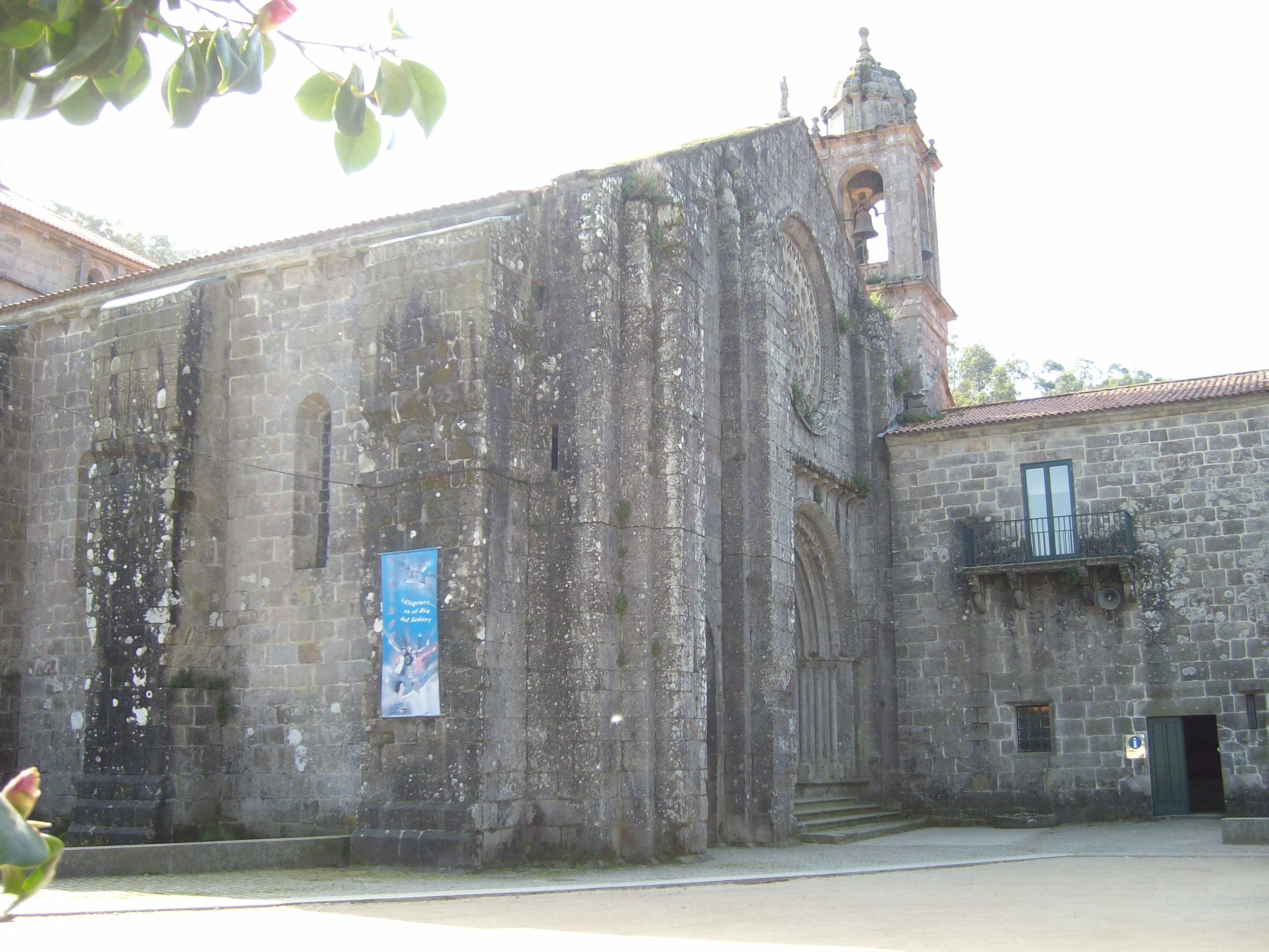 Monasterio de Armenteira